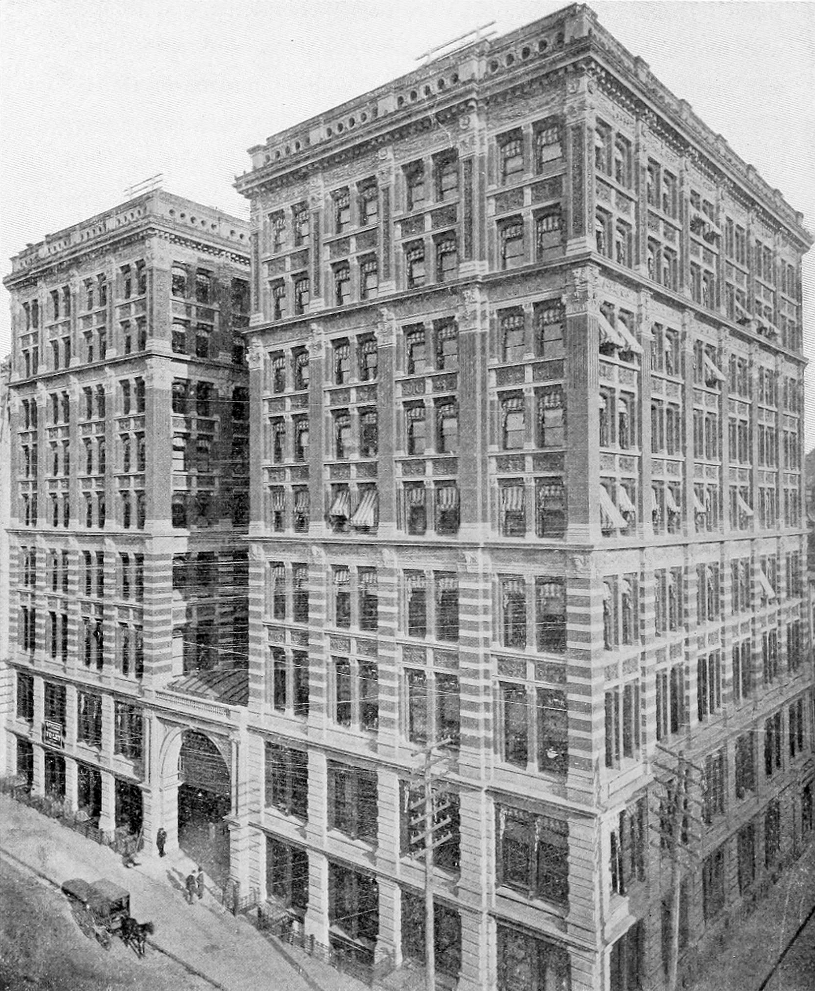 Mills Building, New York City (1882). Title: A history of real estate, building and architecture in New York City during the last quarter of a century Year: 1898 (1890s) Authors: Durst, Seymour B., 1913-, former owner. NNC Real Estate Record Association Union League Club (New York, N.Y.), former owner. NNC Subjects: Real estate business Building Architecture Publisher: New York : Record and guide Text Appearing Before Image: so great as the (lothic revival.The force that reallv was at first effective in Aiuerica, more so inthis country than in England, was not architectural l)Ut literary.There were no Gothic monuments in the United Statesto inspire study or provoke imitation. The architecturalassociations of even the Episcopal Church in the New\\orl(l were not with Gothic, but with the classical formsthat Wren made popular. The mediaeval spirit, so far asarchitecture is concerned, never touched our soil. We possessednone of the picturesque remains and gray solemnities which sur-vived fhroughout England to authorize, as with the force of an an-cient decree, the acts and doctrines of the Gothicists. At first it wasthrough letters, especially through the writings of Ruskin, that theGothic revival reached these shores. Later on, indeed, our archi-tects felt the direct influence of English architectural example; butthen a reaction was commencing abroad, and other ideas were turn- 566 A HISTORY OF REAL ESTATE, Text Appearing After Image: Broad Street, New York City. MILLS BUILDING.(1882.) George B. Post, Architect. BUILDING AND ARCHITECTURE IN NEW YORK. 567